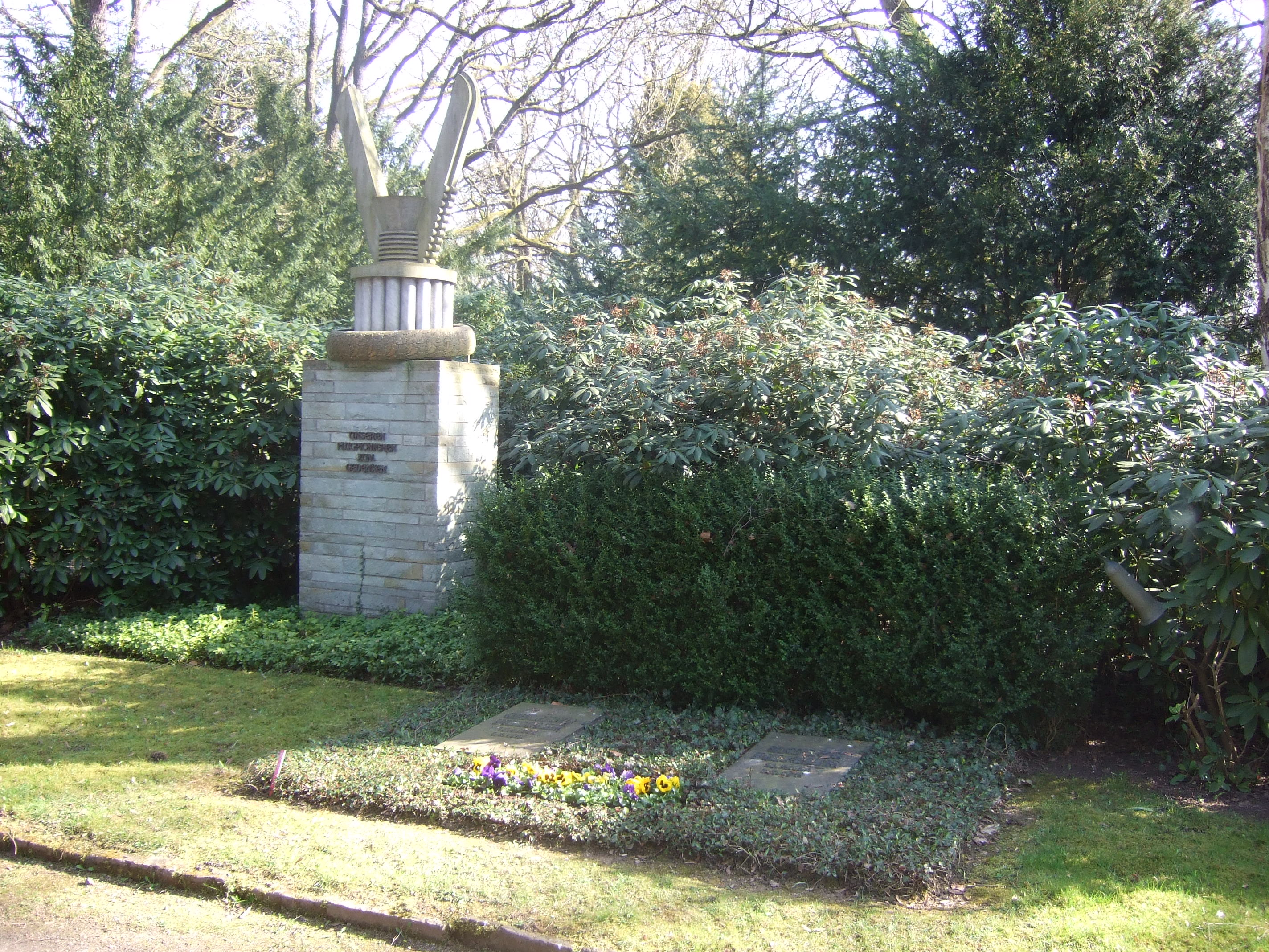 Gerhard Fieseler garve with monument